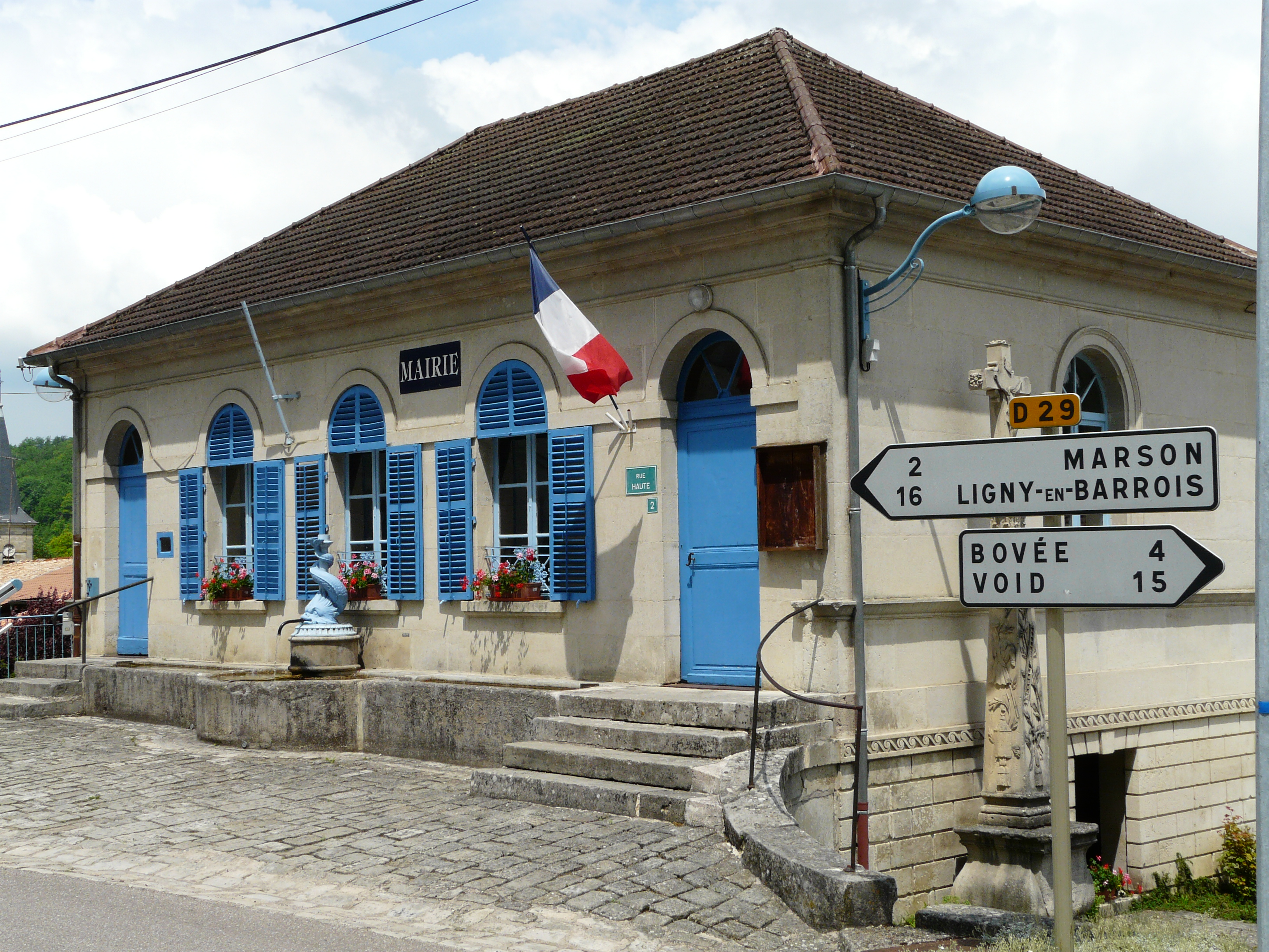 townhall in Reffroy (Meuse, France)